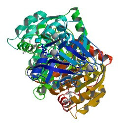 picture of Liver Alcohol Dehyrogenase (ladh) using